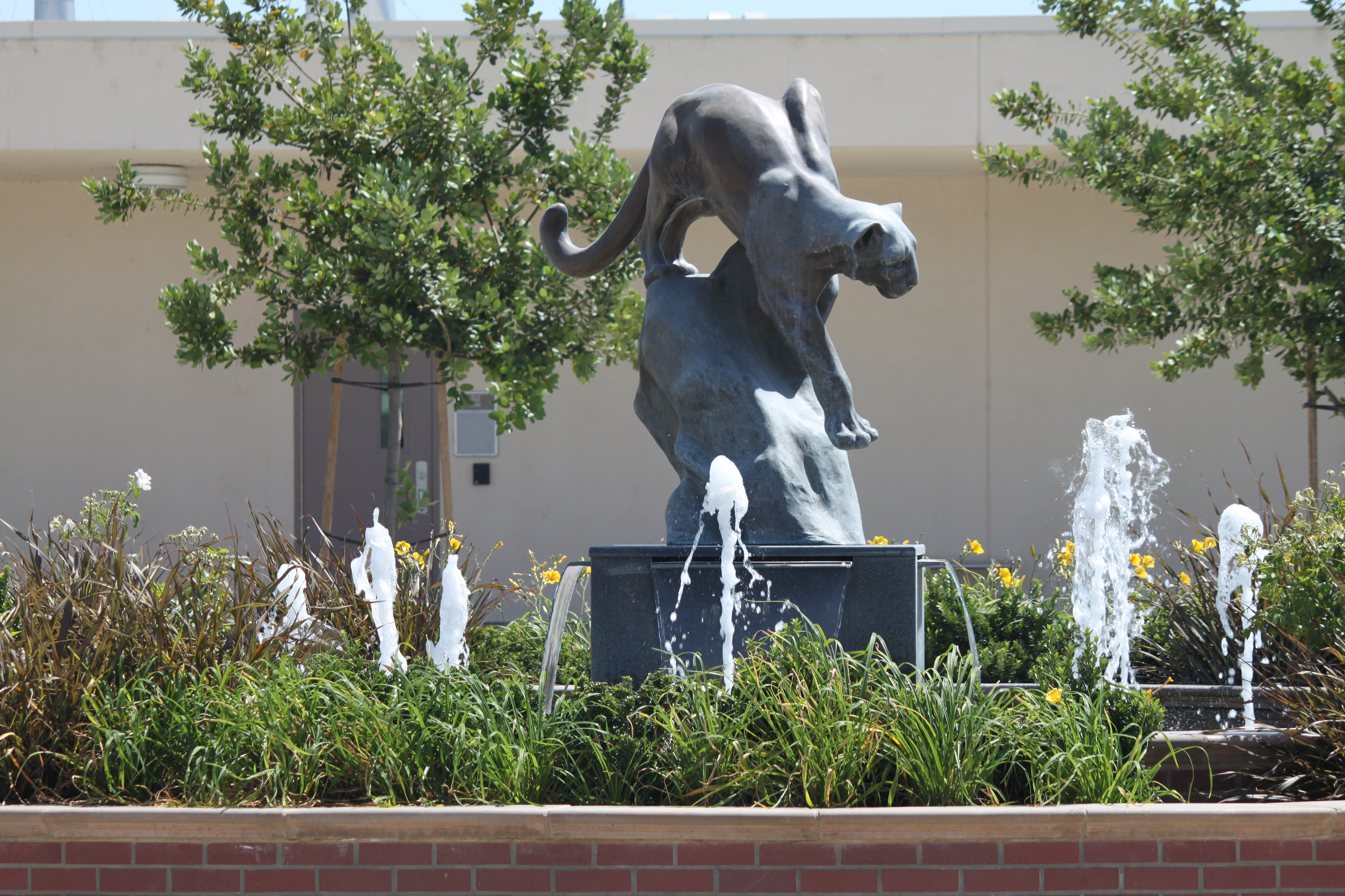 A photo of the Cougar Fountain at Taft College, with the science building in the background.